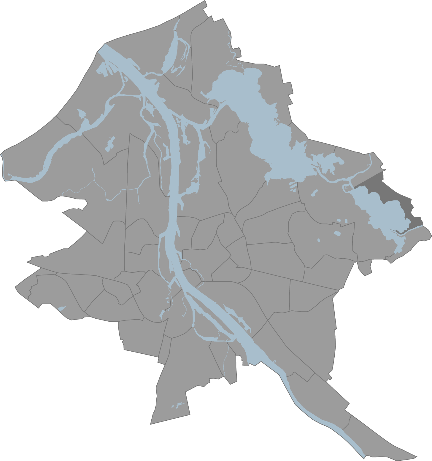 A map of Riga, Latvia with the eponymous commune highlighted